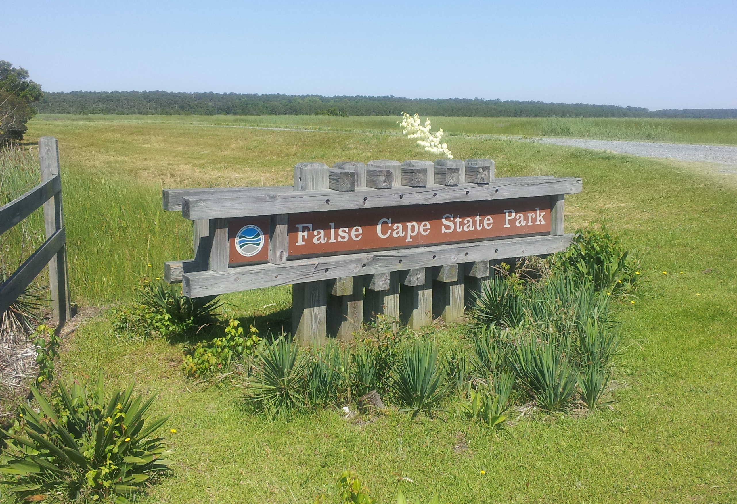 First Landing State Park Entrance